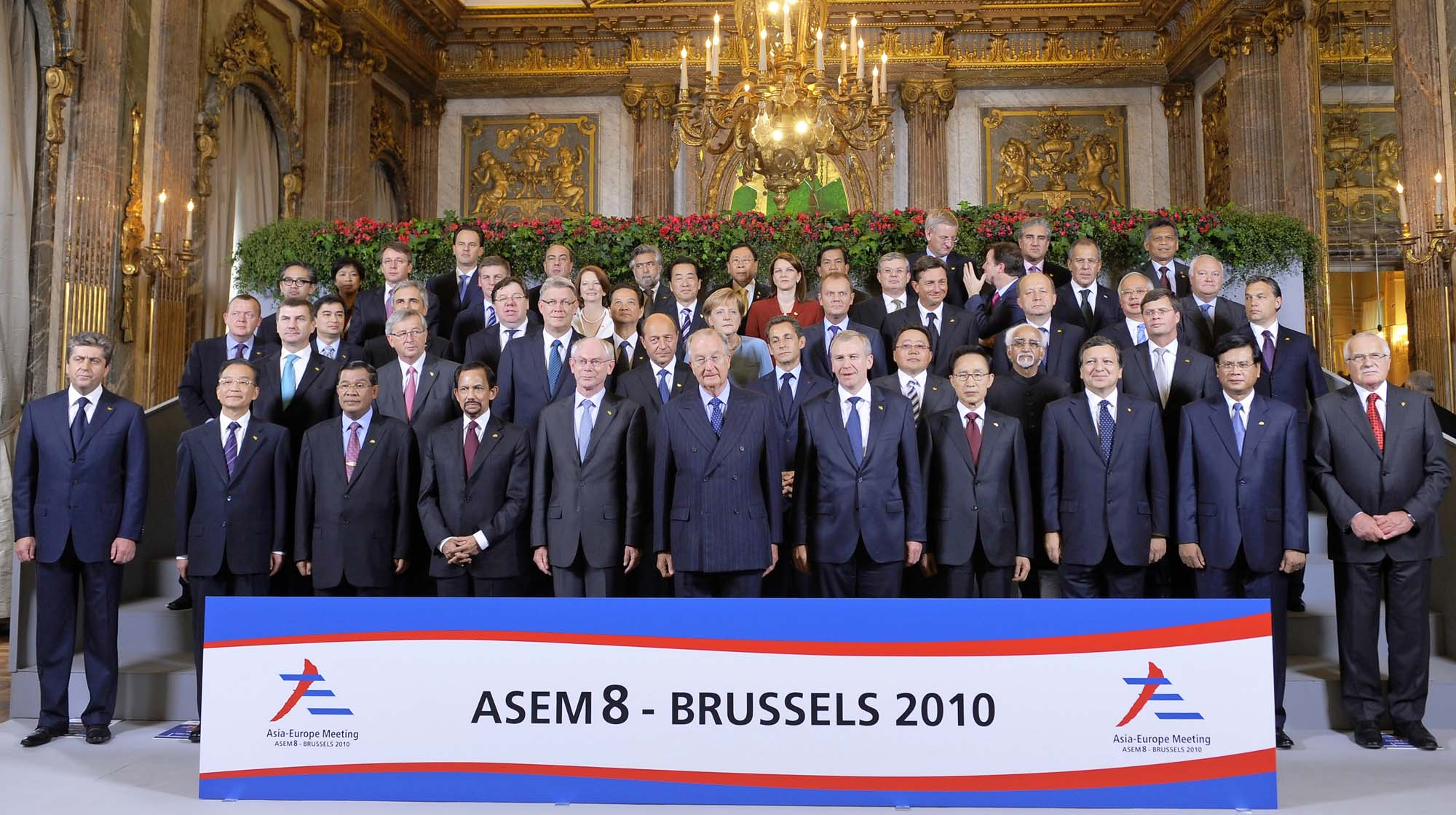 20101004 - BRUSSELS, BELGIUM : Family photo on the first day of the eighth Asia-Europe Meeting (ASEM 8), Monday 04 October 2010, at the Royal Palace in Brussels. President of the European Council Herman Van Rompuy (5thL), Belgium's King Albert II (6thL), outgoing Belgian Prime Minister Yves Leterme (5thR), European Commission chairman Jose Manuel Barroso (3thR). นายกรัฐมนตรีเข้าร่วมการประชุมผู้นำเอเซีย-ยุโรป ครั้งที่8 (ASEM8) ณ กรุงบรัสเซลส์ ประเทศเบลเยียม วันที่4 -5 ตุลาคม พ.ศ.2553 (ภาพจาก